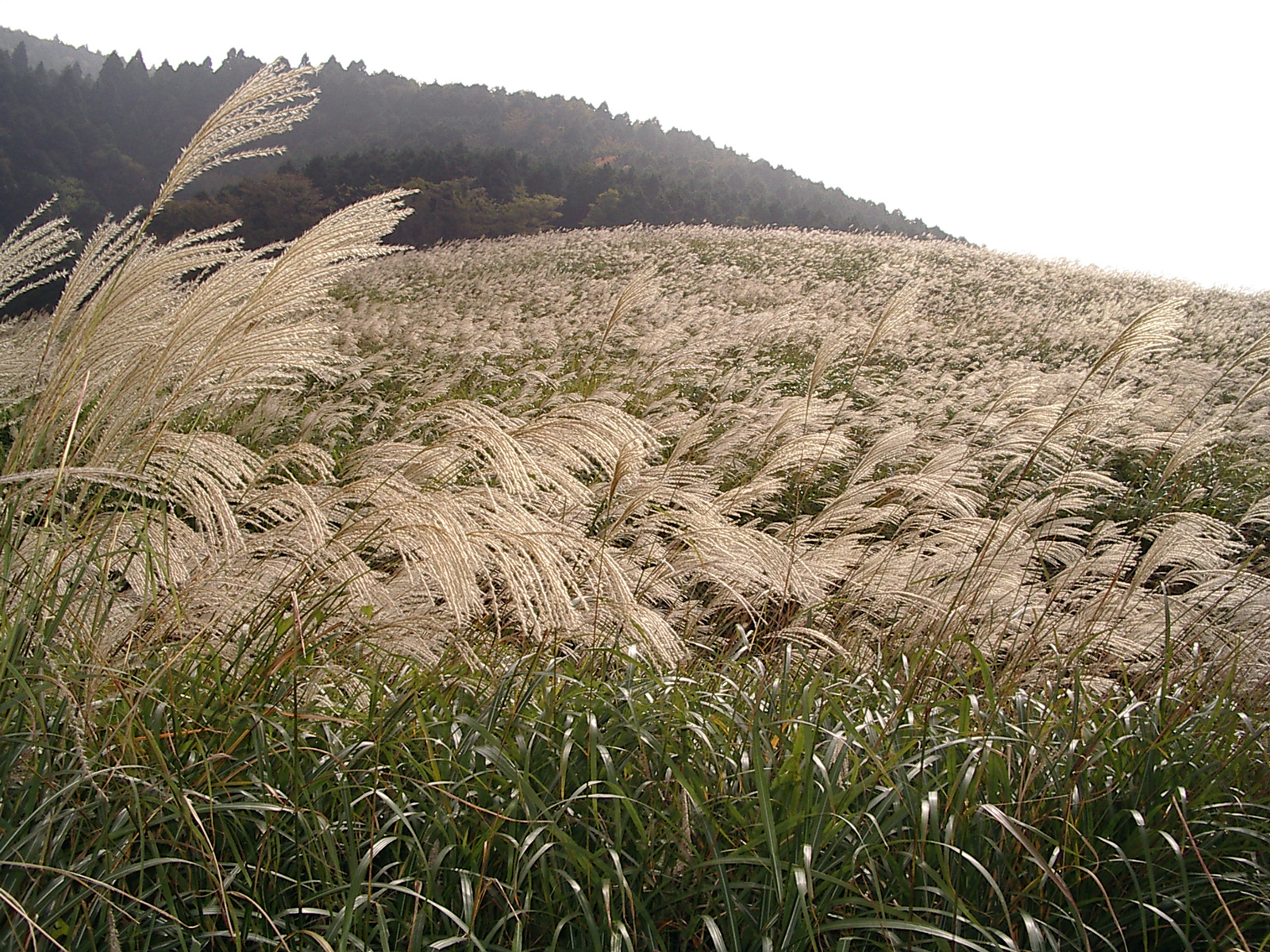 Susuki (Miscanthus sinensis) in Sengokuhara, Hakone, Kanagawa, Japan.